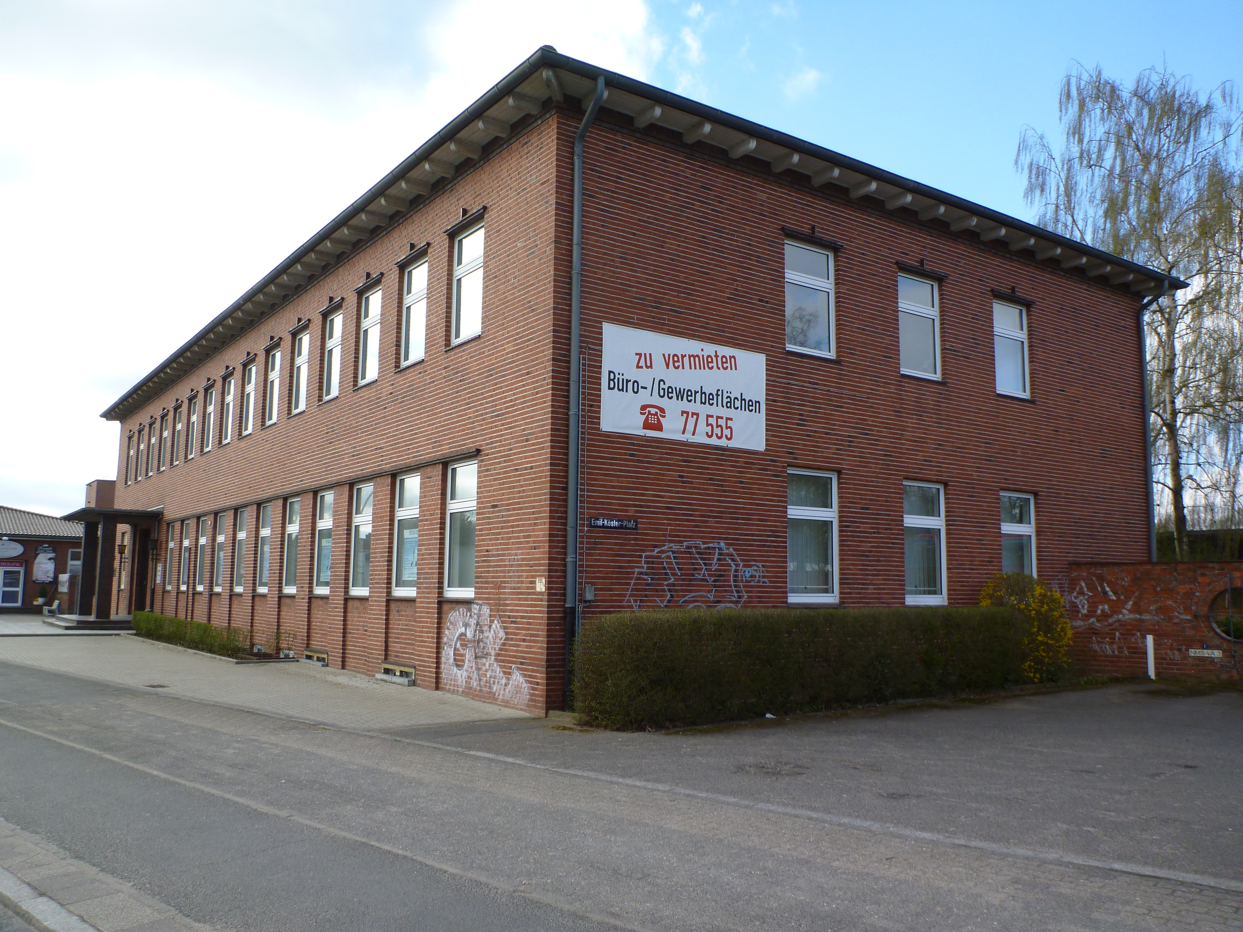 Main building of Emil Köster AG Lederfabriken at Haart 224, in Neumünster, view from Emil-Köster-Platz